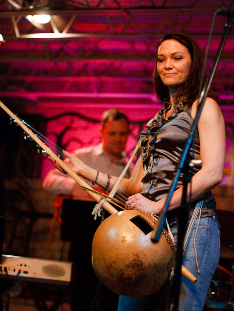 Heather Maxwell performing with Inner Rhythm at the Gravity Lounge in Charlottesville Virginia on January 23 2009.